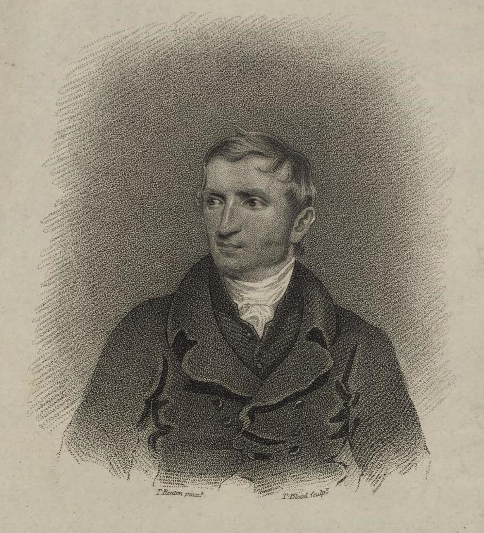 A portrait from the Welsh Portrait Collection at the National Library of Wales. Depicted person: John Anderson – Scottish missionary and the founder of the mission of the Free Church of Scotland at Madras, India